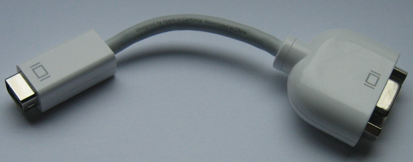 An Apple Mini-DVI to VGA connector